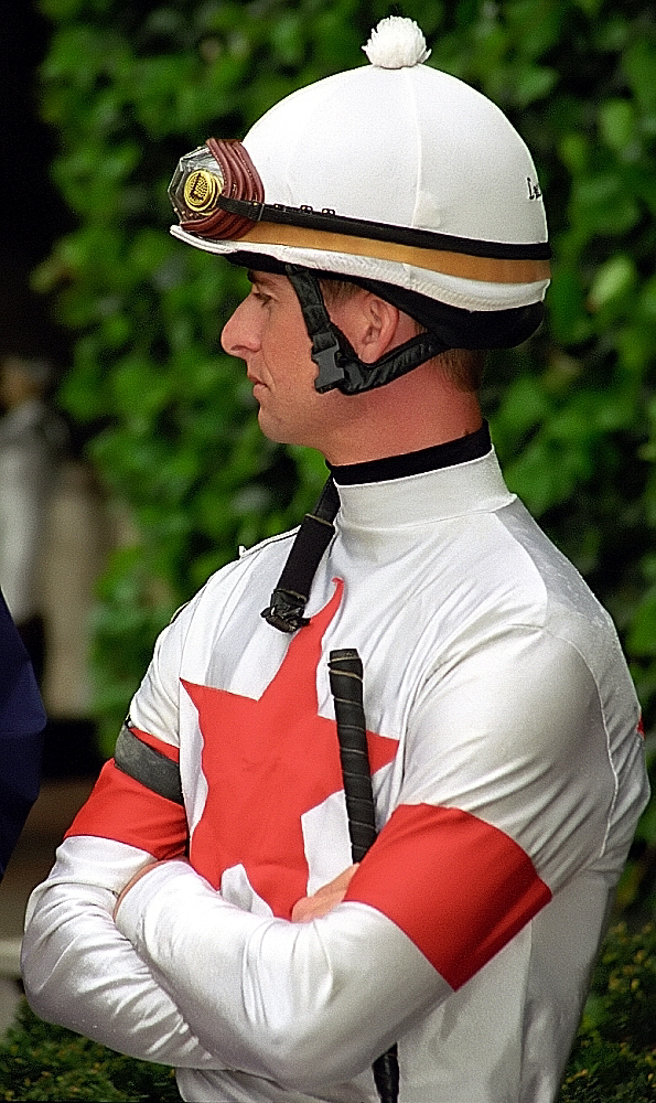 Lexington Kentucky - Keeneland Jockey "Corey Lanerie"